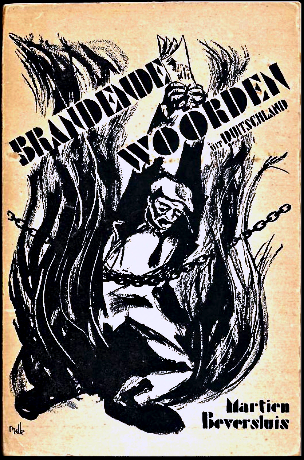 Martien Beversluis: Brandende Woorden uit Duitschland (= Burned Words from Germany), Boekenvrienden Solidariteit, Hilversum 1934